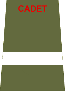 Rank slide worn by a Cadet Under Officer in the Army Cadet Force.